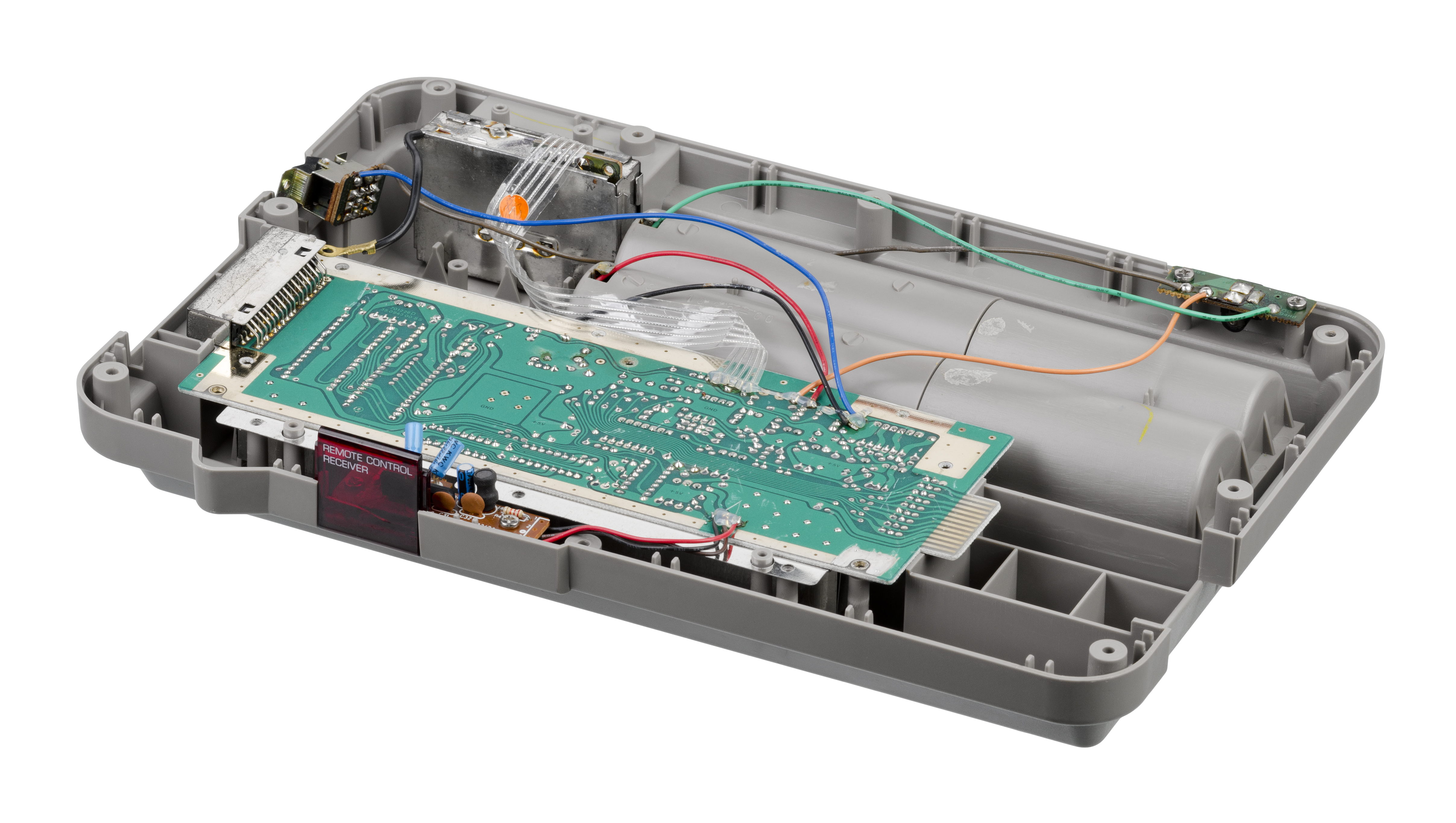 The Socrates, an educational entertainment ("edutainment") video game console released in 1988 by VTech, shown with the top casing removed. The first in a line of edutainment consoles still being released today by VTech, the Socrates was marketed to kids and played simple teaching games. A wireless keyboard controlled the system, which featured two break-out joypads, and a mouse and tablet controller were sold separately. The system ran off 6 D batteries or could use an optional AC adapter.